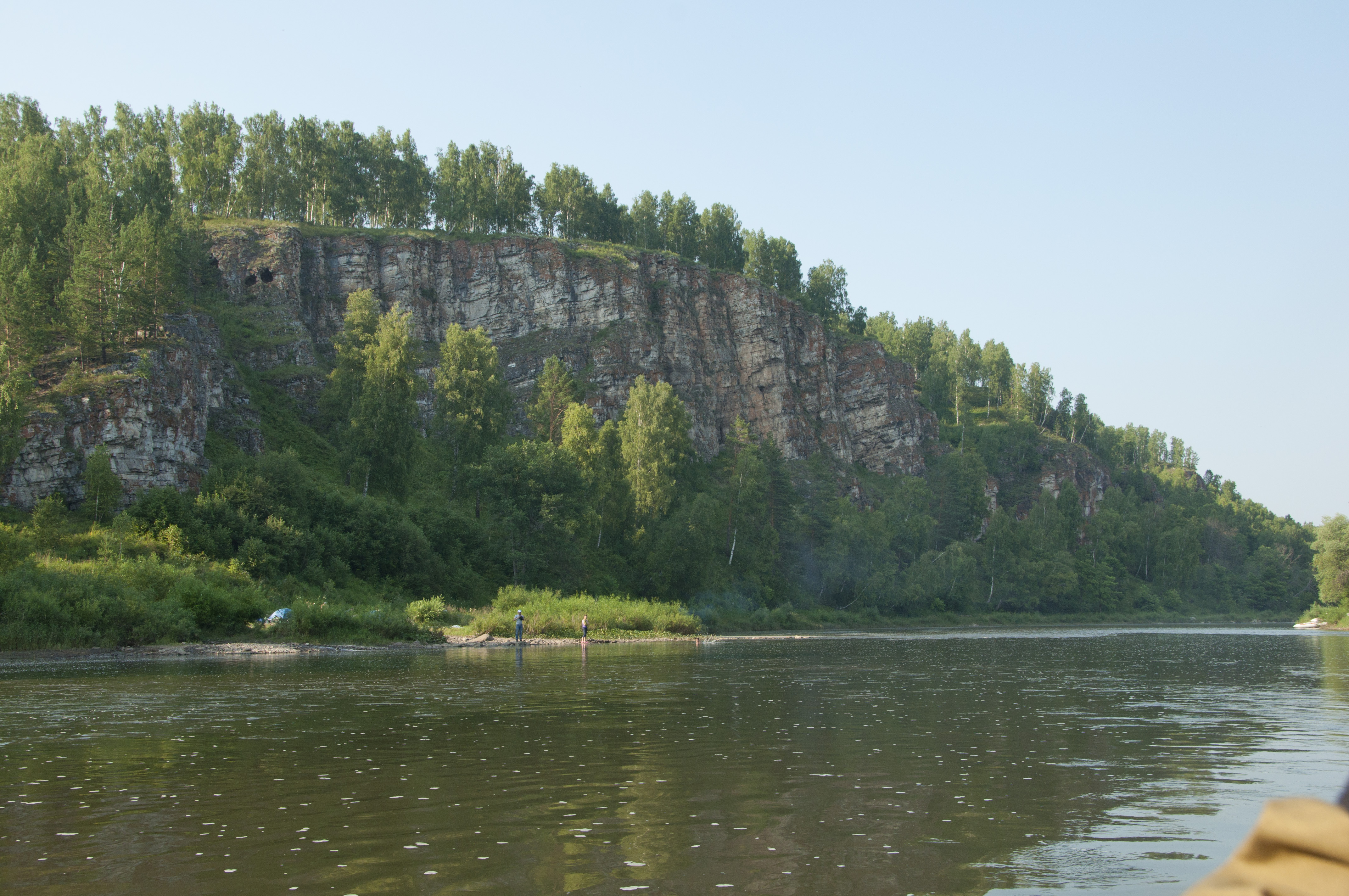 YanganTau mountains near river Yuryuzan